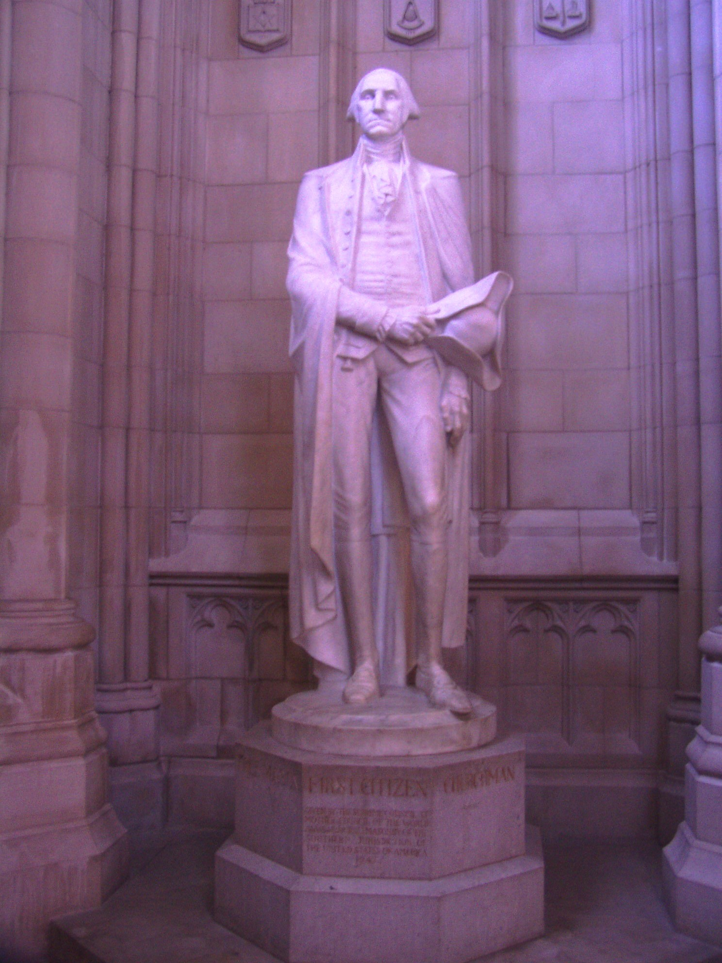 Marble statue of George Washington by Lee Lawrie at Washington National Cathedral, Washington, D.C.